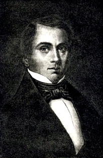 Gustave Koerner in the year 1836